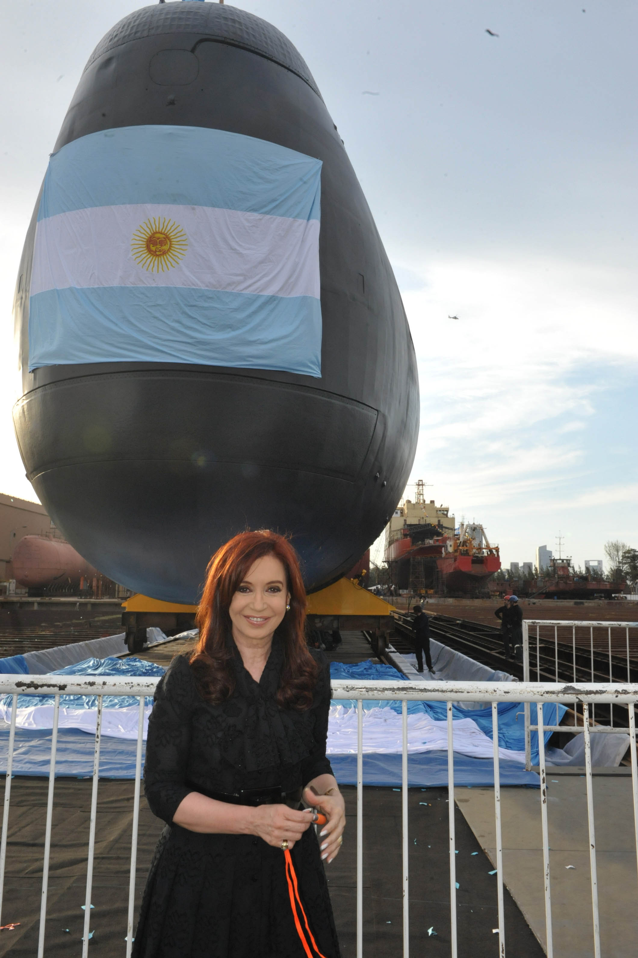 The president Cristina Fernández on the CINAR naval complex. On a background the San Juan submarine. On a background: at the left case of a certain submarine, on the right Almirante Irizar icebreaker (?)